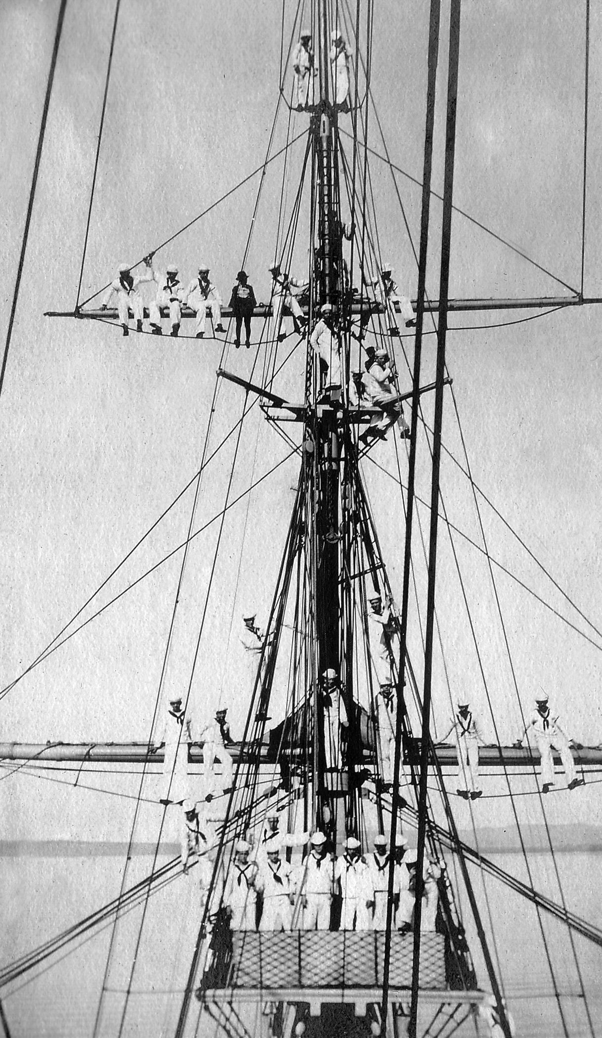 USS Adams crew onboard.